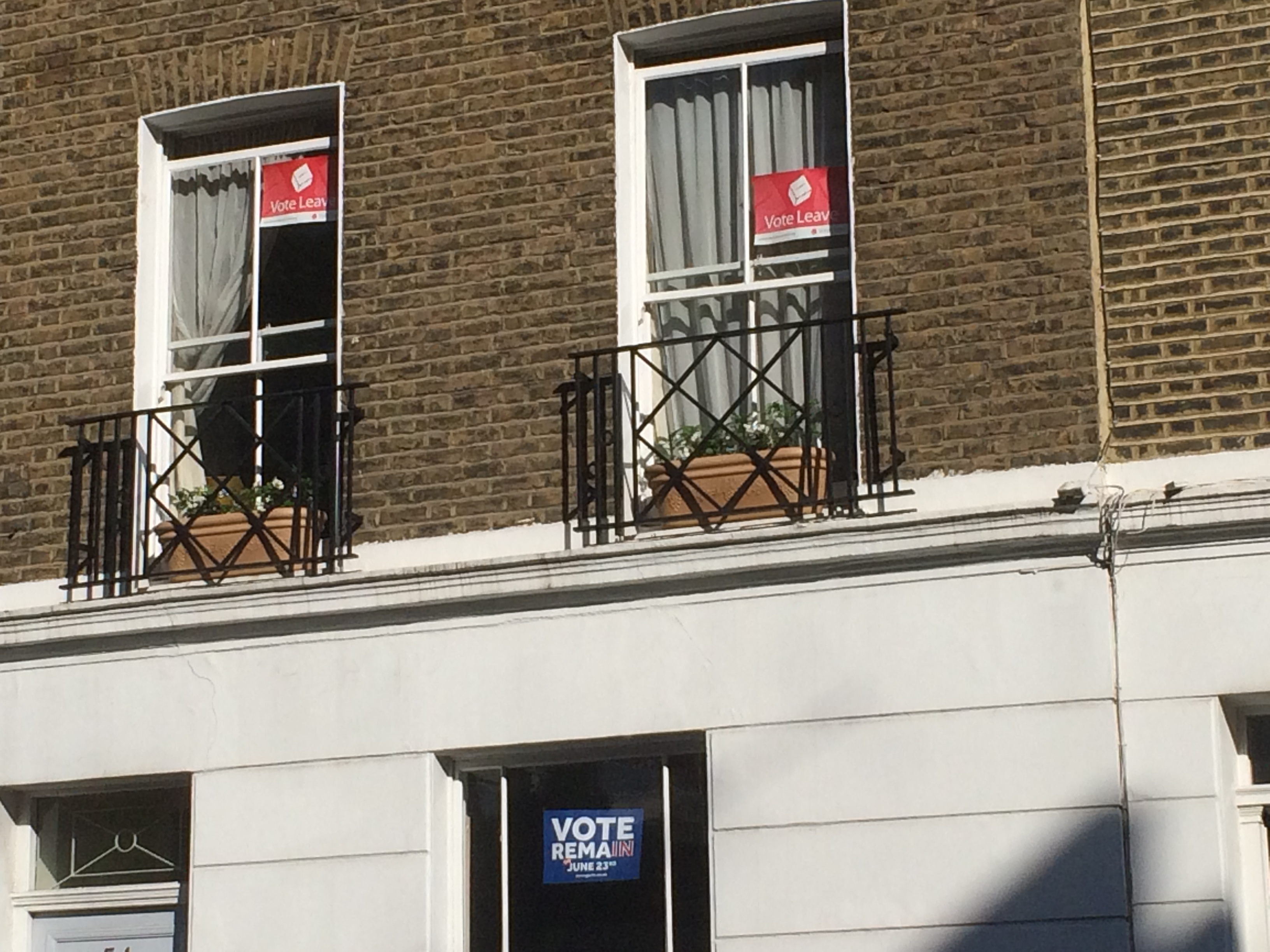 Referendum posters for both the Leave and Remain votes in Pimlico, London just two days before the United Kingdom votes on its European Union membership.